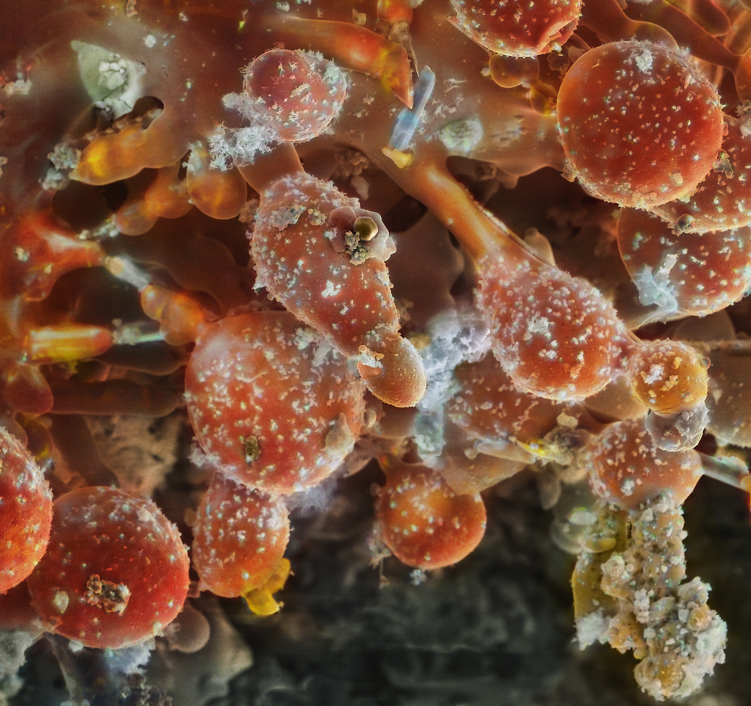 An electron micrograph of volcanic sublimates (minerals) in natural colors. Pentavalent arsenic sulfide As2S5, droplets of solidified melt, an unnamed X-rays amorphous mineral, fumarolic incrustations, Mutnovsky volcano, Kamchatka. Colorless small crystals are an unnamed mineral with a composition NH4As4O6I, which is an iodine analogue for lucabindiite (K,NH4)As4O6(Cl,Br). A cuboctahedral crystal of pyrite FeS2 (above the center) and a crystal of Mg-Fe sulfate (bluish at the top) are also visible. Image size is 700 microns along the long side.